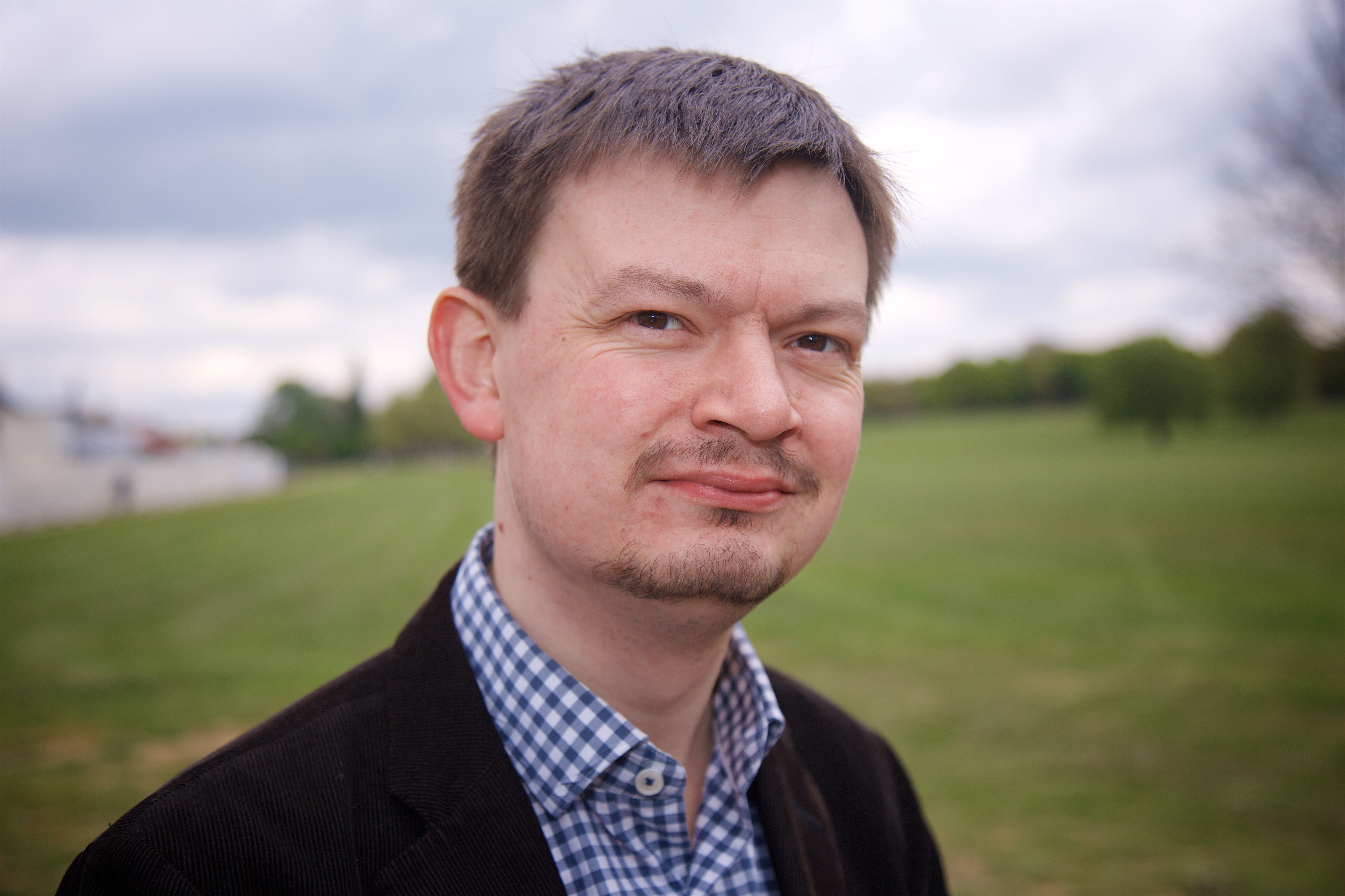 uhuh